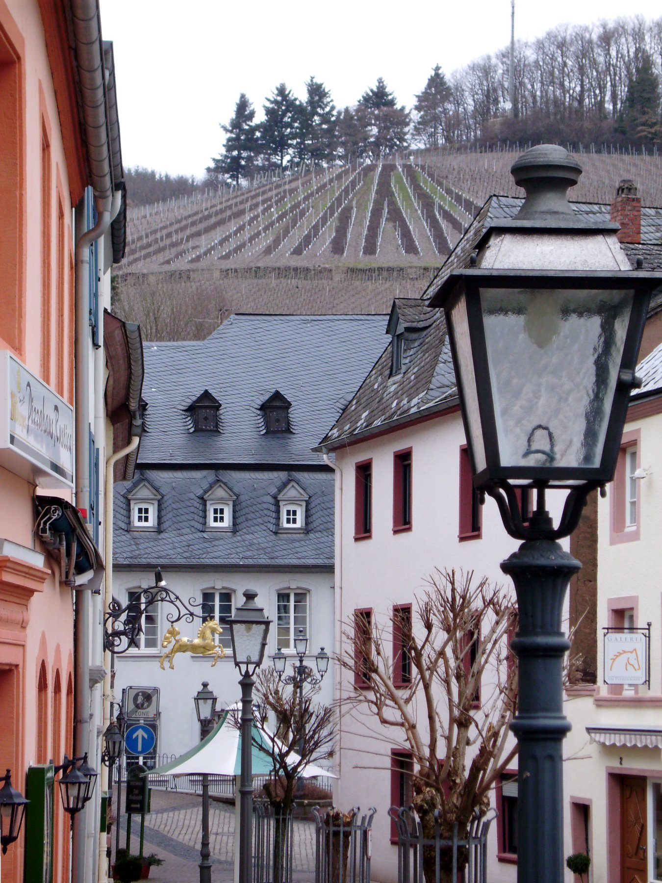 Winter-sight from Saarburg city to the vineyard „Saarburger Rausch“ in march 2009.